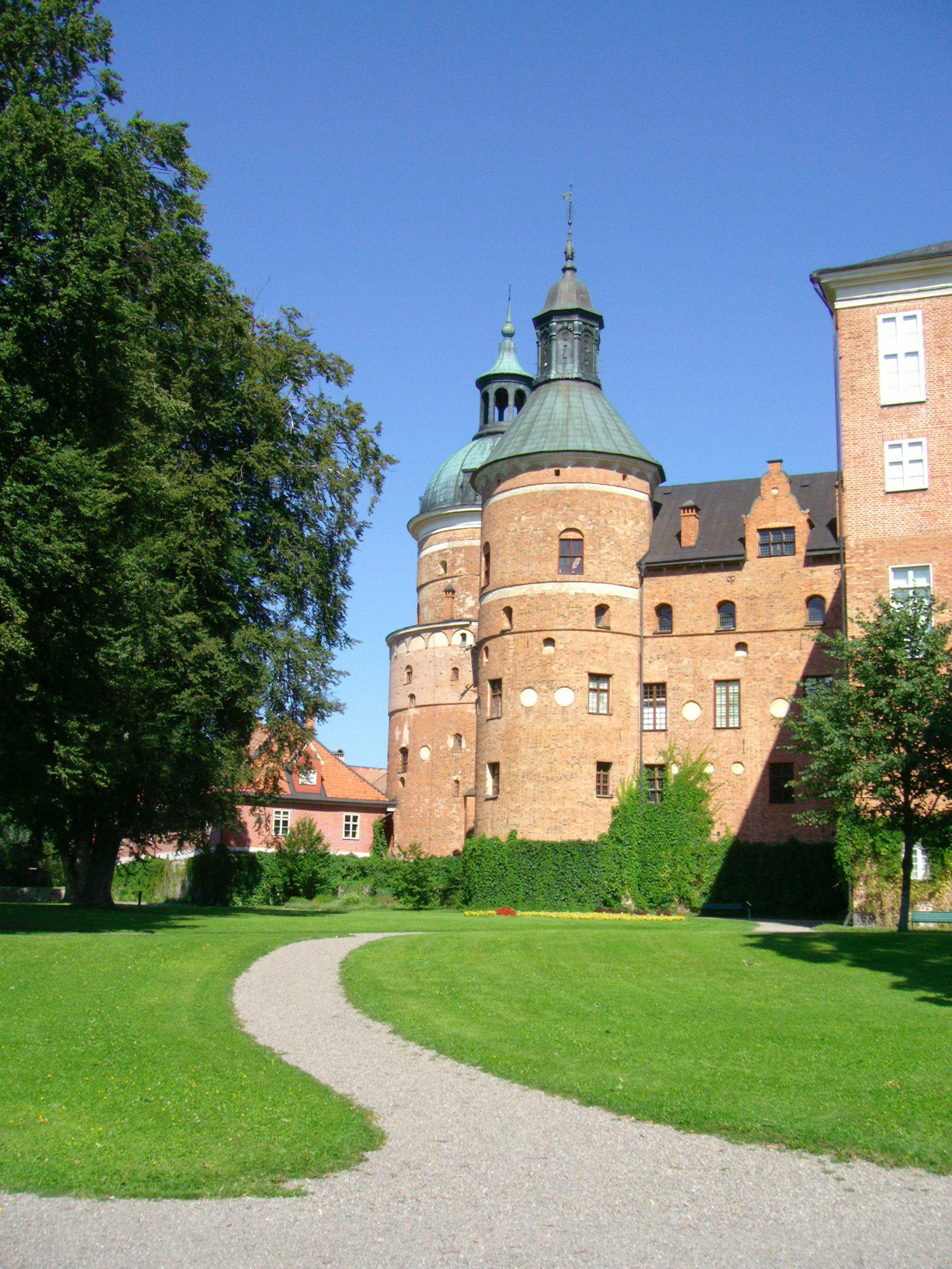 Gripsholm Castle